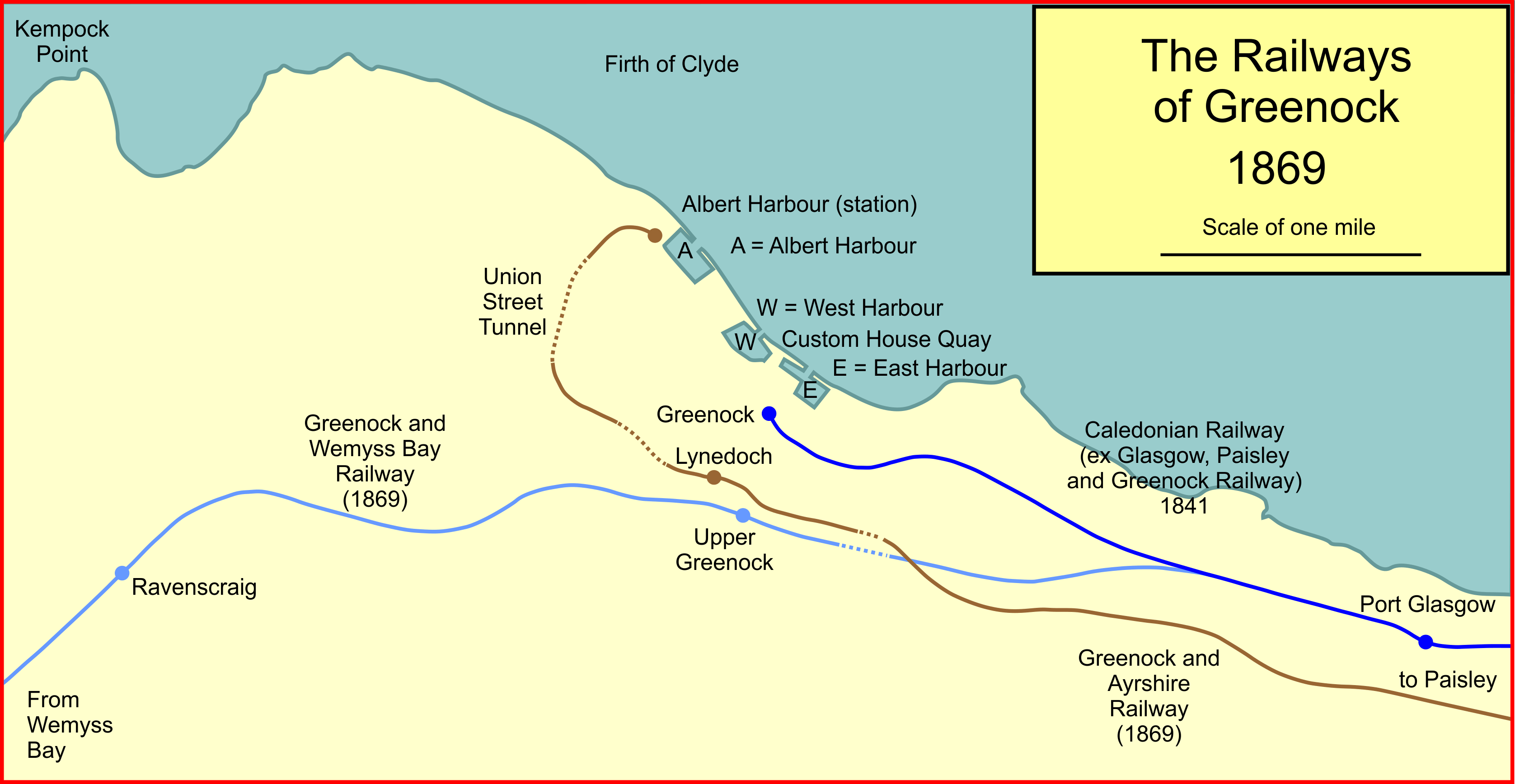 Railways in Greenock, Scotland, in 1869